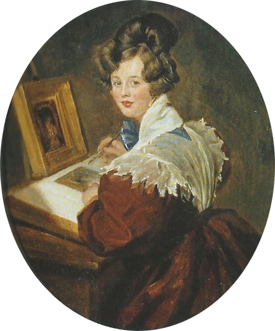 Portrait of Henrietta Christina Temminck (1813-1886)